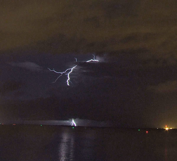 Lightning strikes southwest of Darwin, NT, Australia.